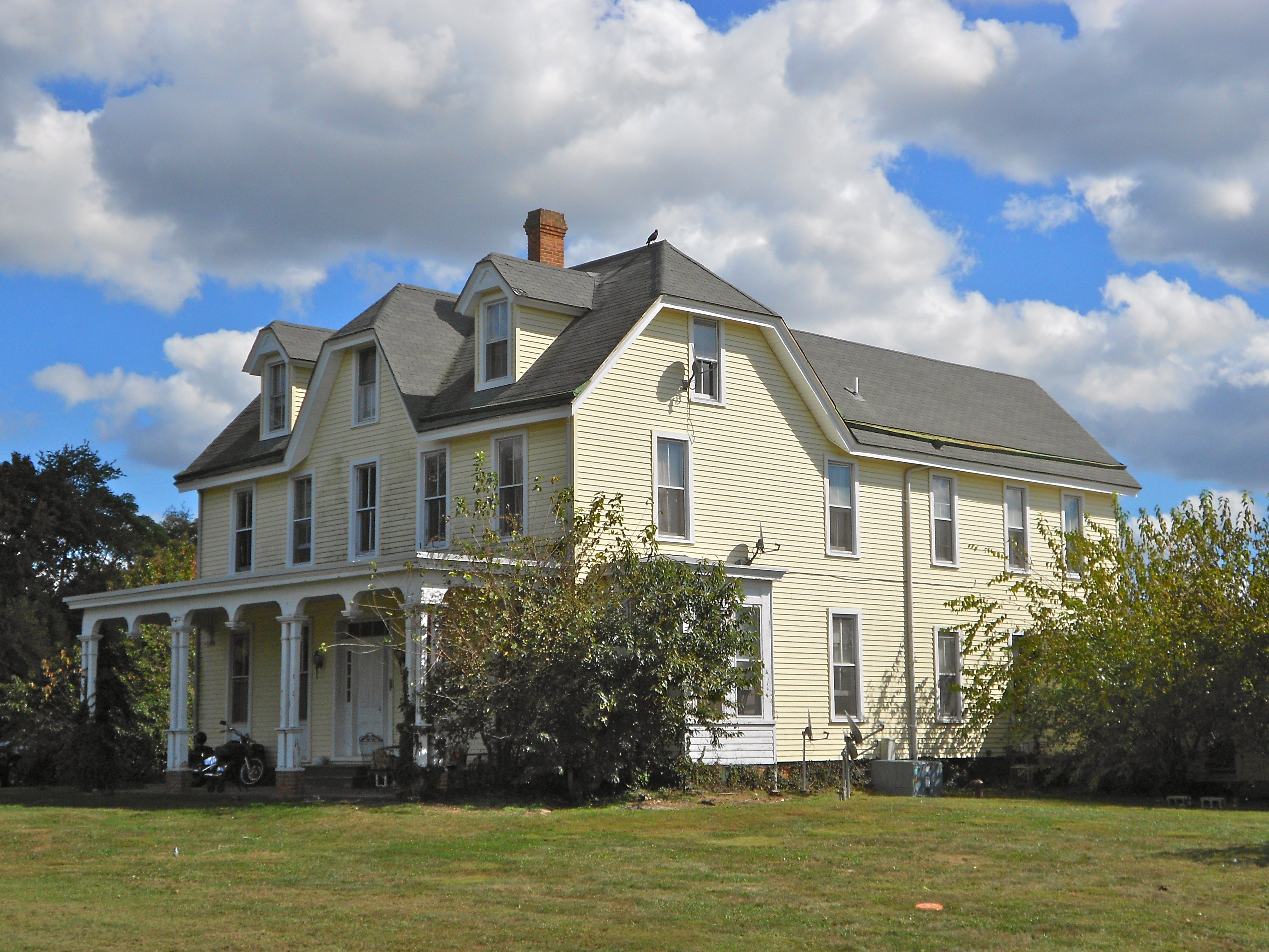 Pharo House listed on the NRHP on August 9, 1984. At the corner of Odessa and Silver Lake Rds., Middletown, Delaware (across from the shopping mall)